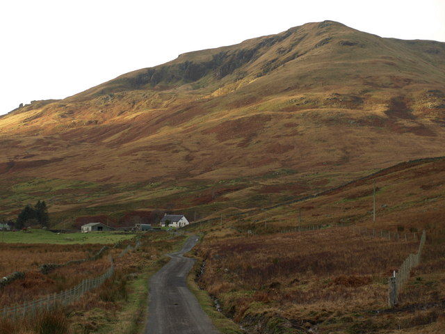 Glen Douglas Looking towards Invergroin and Tullich Farm with Tullich Hill behind.